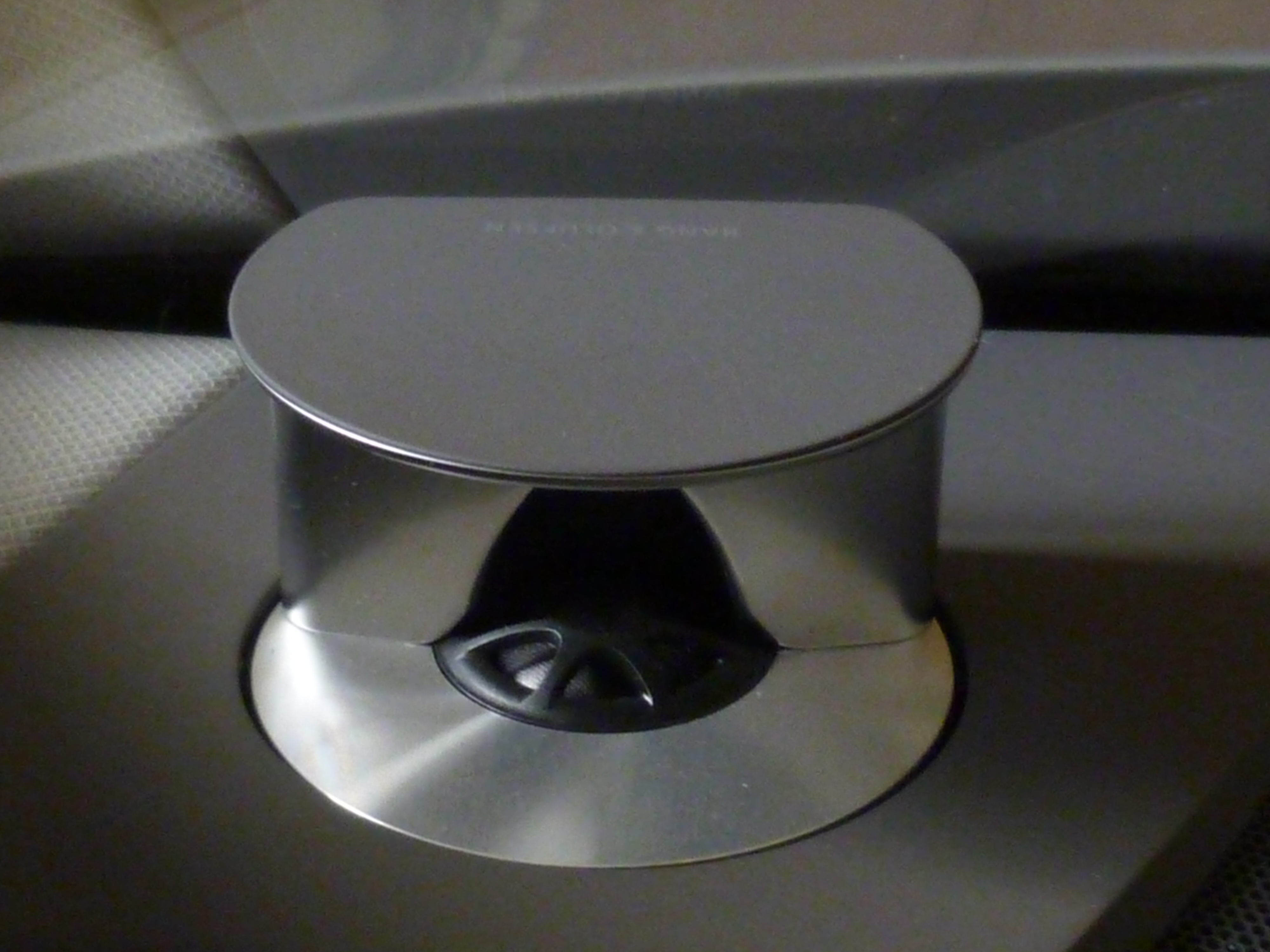 Close up of the Bang and Olufsen Tweeter Lens in the left side of an Audi A8 model 2008.